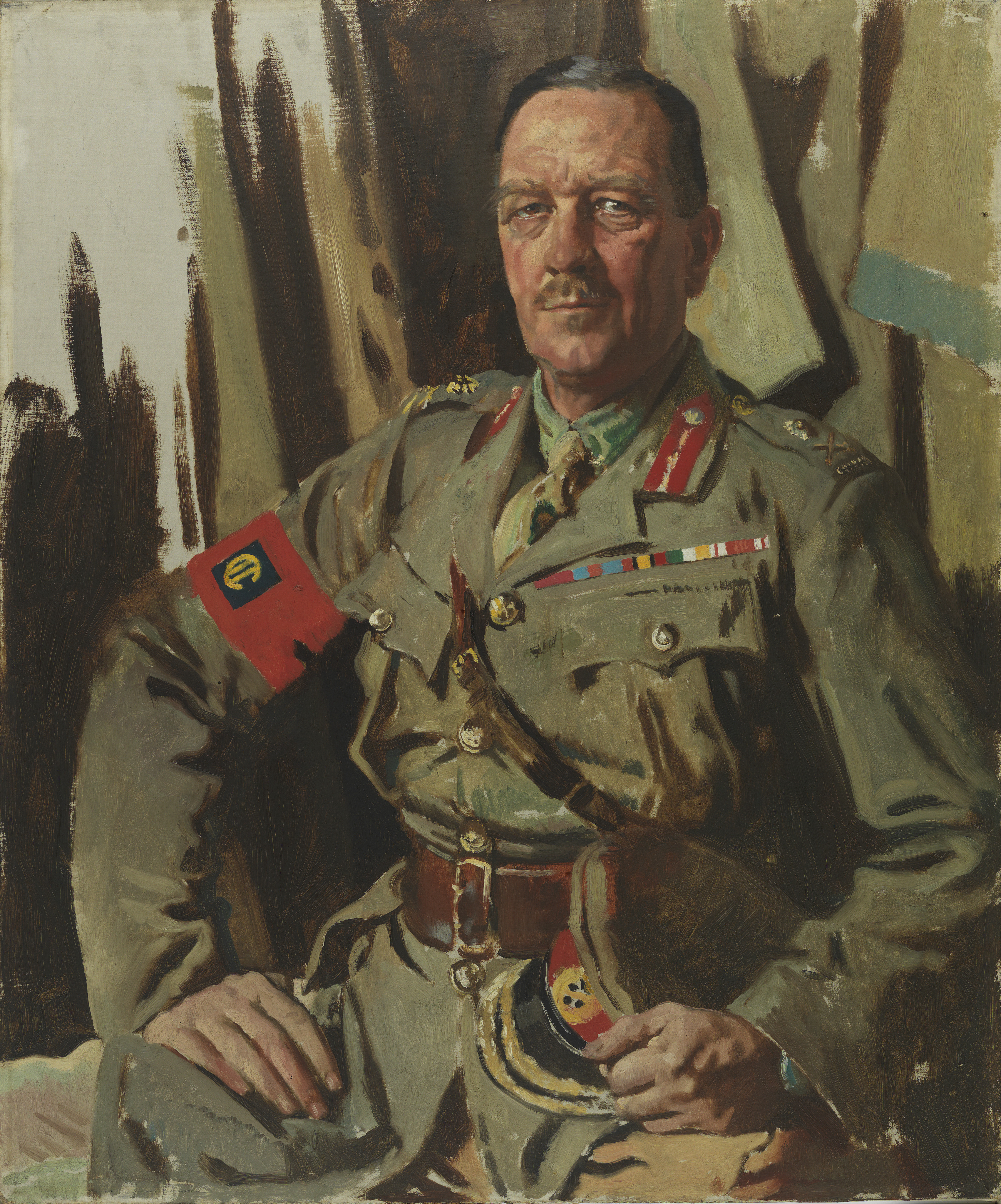 Depicted person: Henry Burstall